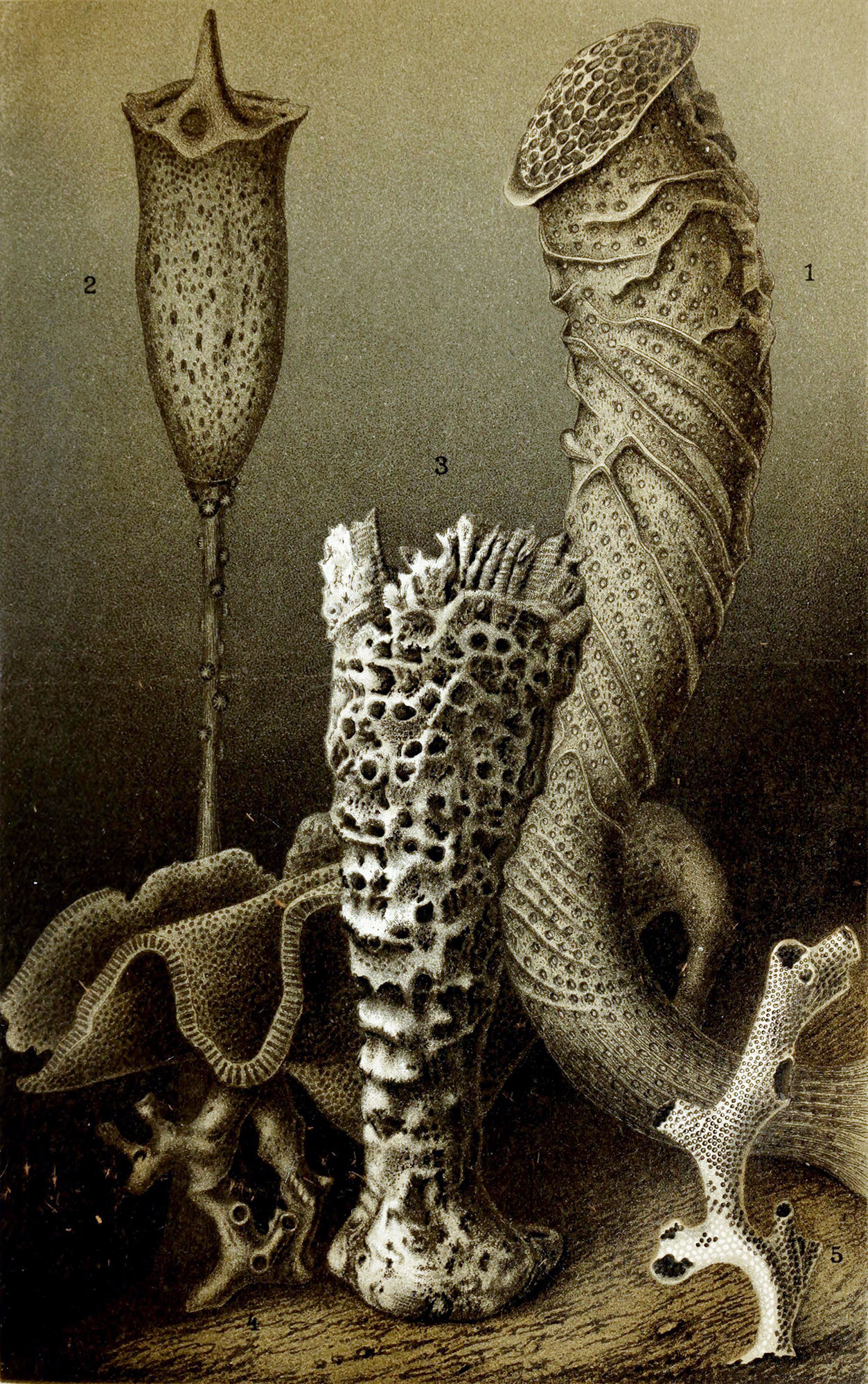 Hexactinellida 1-Euplectella aspergillum 2-Monorhaphis chuni 3-Lefroyella decora 4-Aphrocallistes vastus 5-Aphrocallistes beatrix